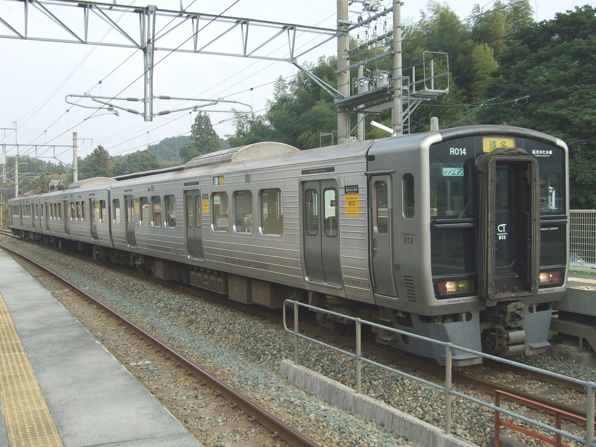 JR Kyushu 813-100 series (Fukuhoku Yutaka Line version) set R014 at Kurobaru Station on the Fukuhoku Yutaka Line